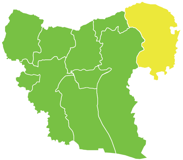 Ayn Al Arab District — in the Governorate of Aleppo, northern Syria. A Kurdish inhabited region in Syria, part of de facto Syrian Kurdistan. Filling the northeastern region of the governorate, with its northern boundary along the Syrian-Turkish border.